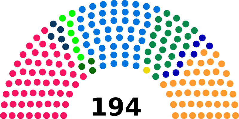 Seats diagramme of Swiss National Council (1943)